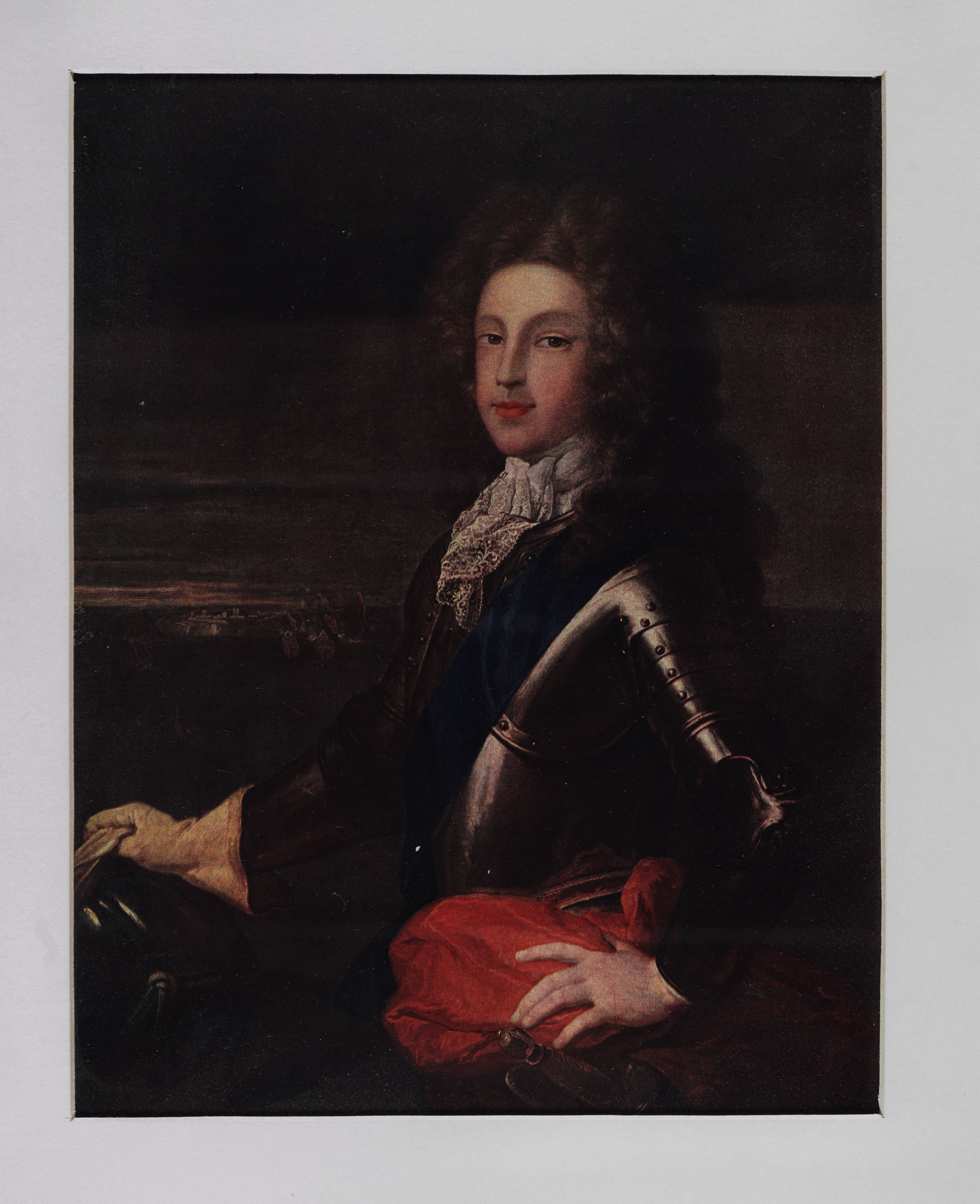 Colour Coloured portrait of Prince James as young man, in armour, with hand on helmet, and sword at side, blue sash over breastplate, castle in backgrounf